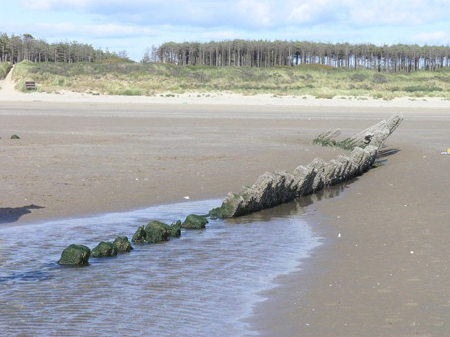 Shipwreck on Cefn Sidan beach Little is known about this wreck but it probably dates back to the 18th century based on construction techniques.